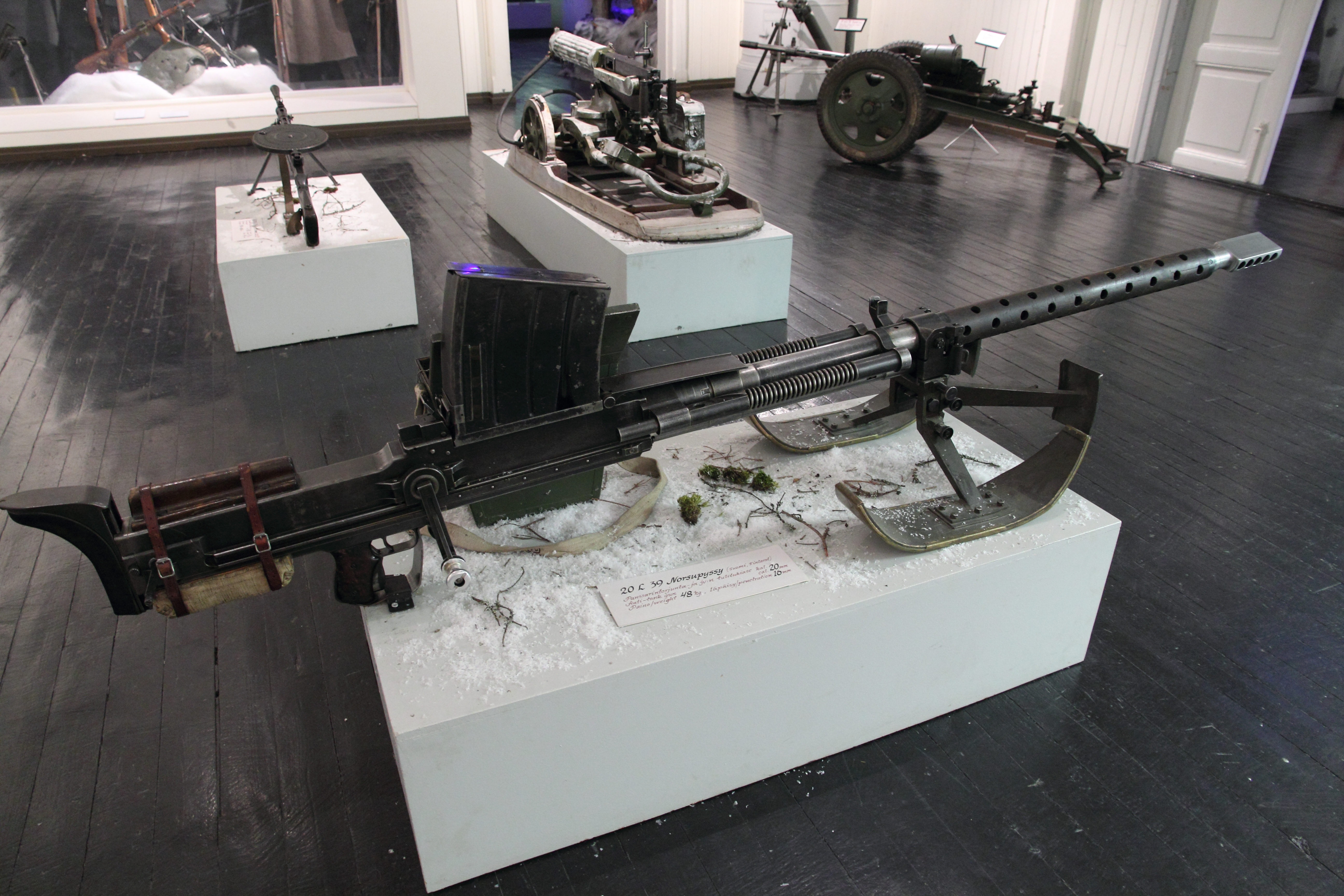 Finnish 20 mm Lahti L-39 anti-tank rifle. Note that this is likely 39-44 variant capable full-automatic fire based on the two additional recoil springs on both sides of the barrel. Photographed in Mikkeli Infantry museum.